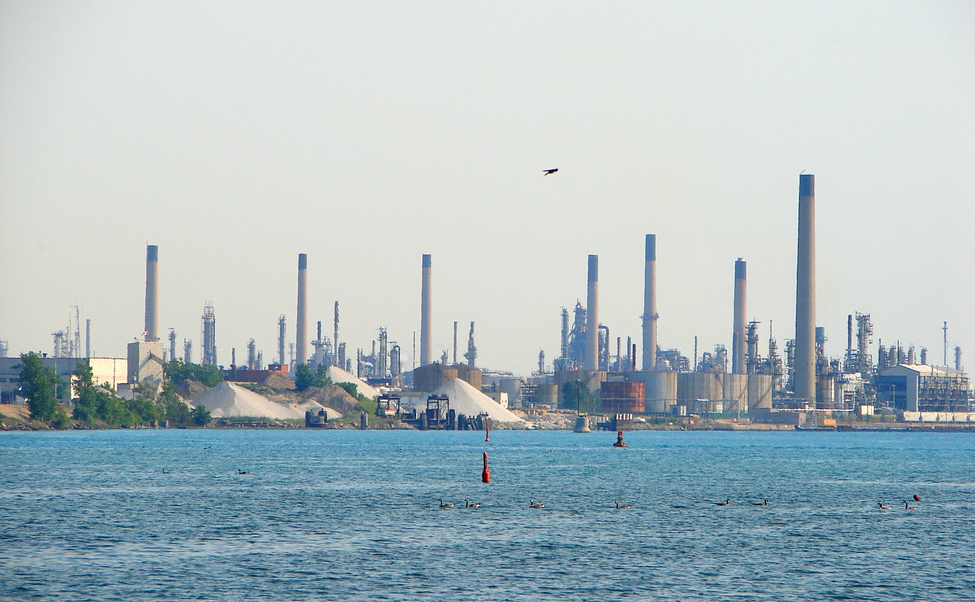 Petro-chemical industry of Sarnia's Chemical Valley, Ontario, Canada